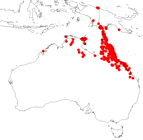 [Acacia simsii Occurrence data from Australasian Virtual Herbarium downloaded from on 8 December 2018